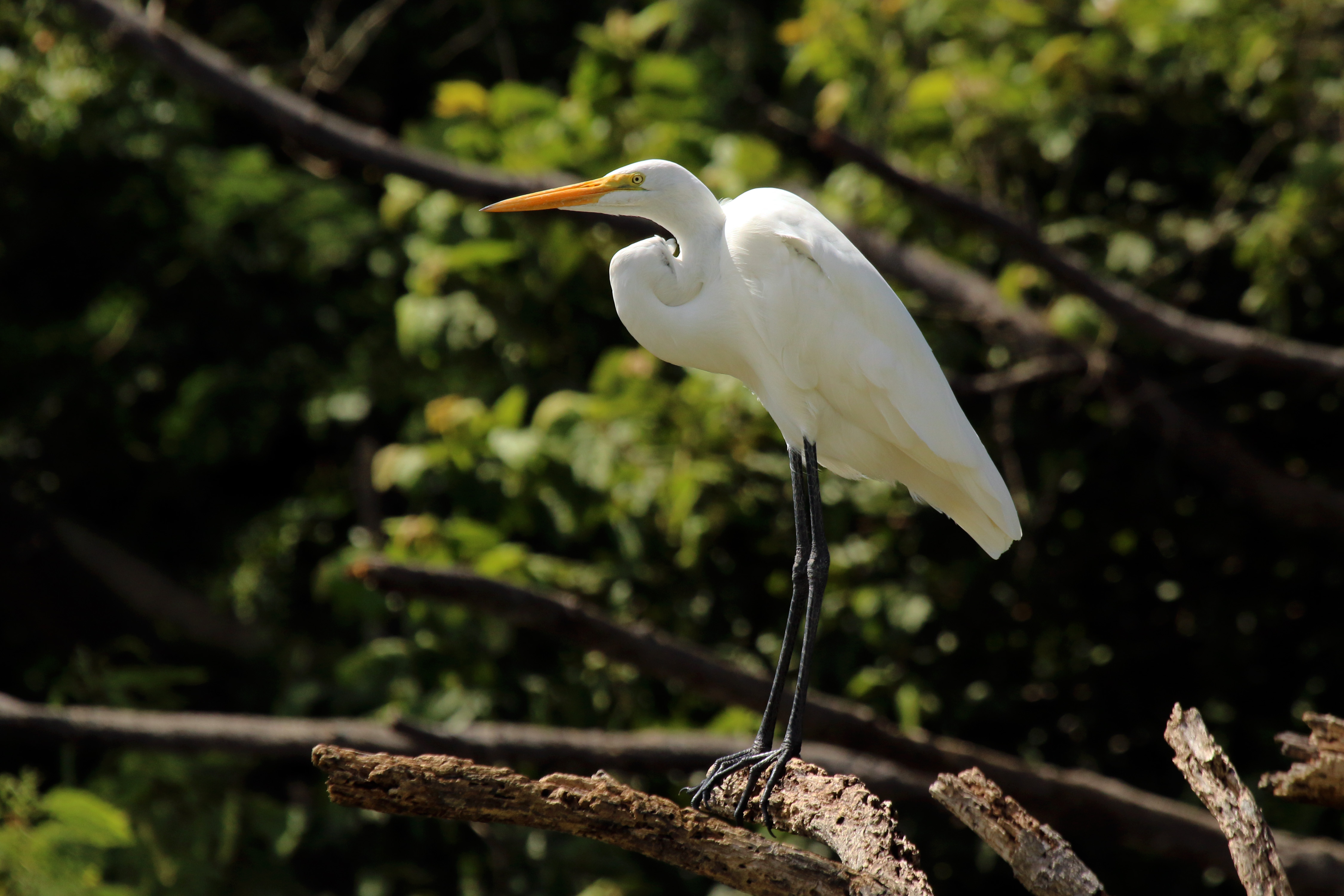 Great egret (Ardea alba egretta), Tobago